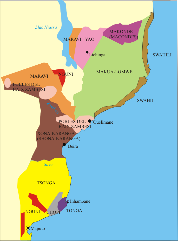 Ethnics groups in Mozambique